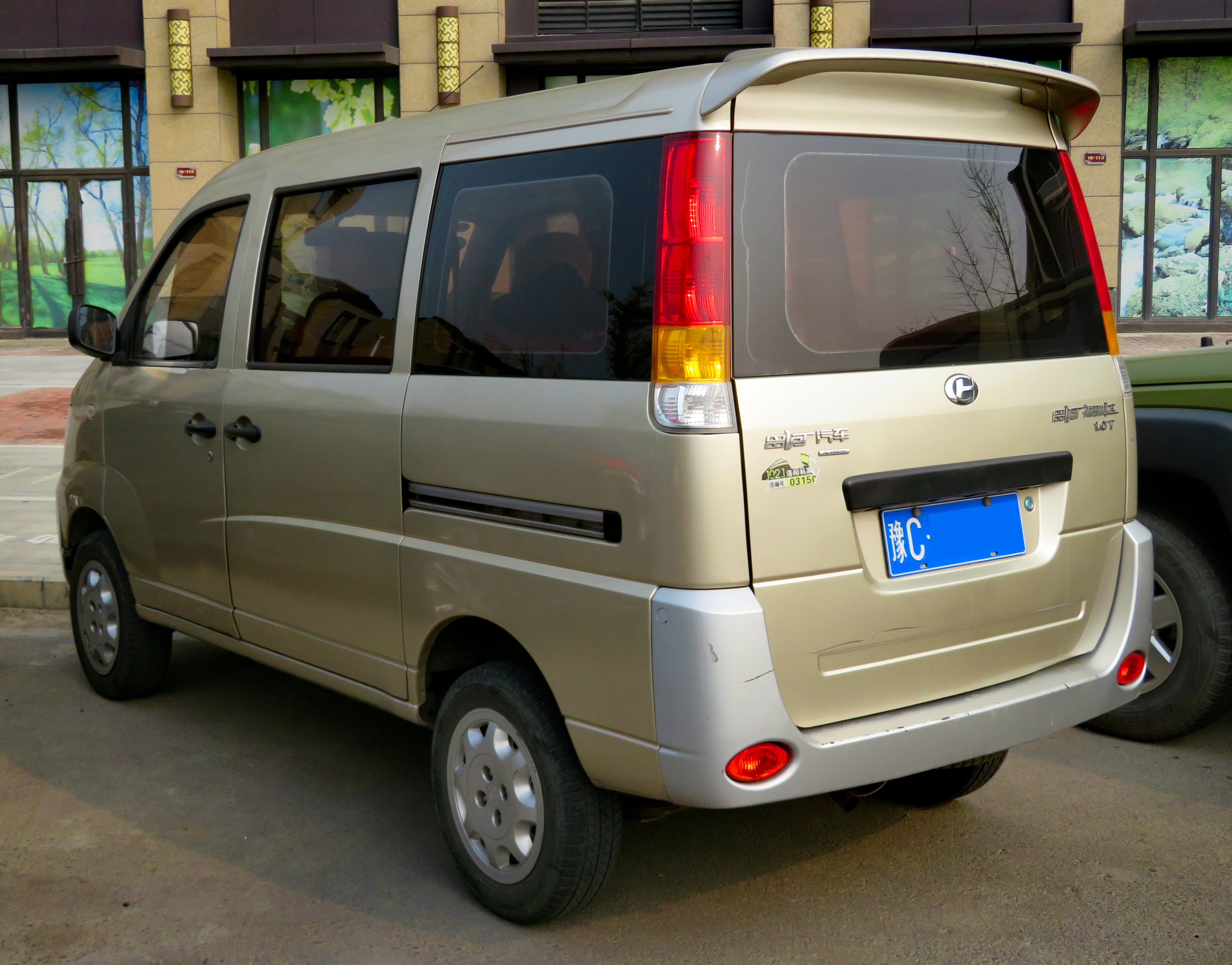 A 2010 Jiangxi-Changhe Freedom photographed in Xigong District, Luoyang, Henan province, China